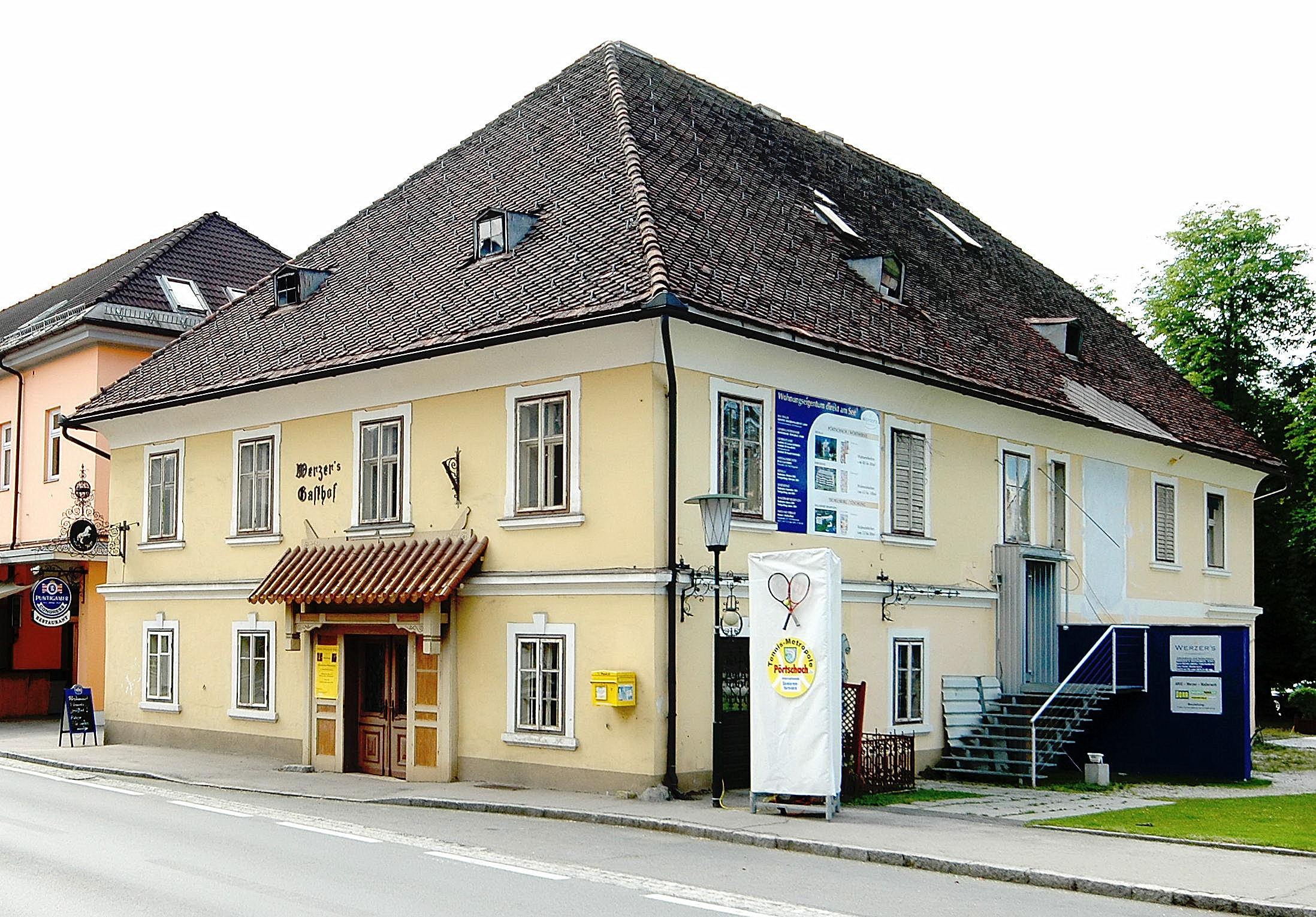 Former Werzer´s guesthouse "Weisses Roessl", in the year 2006 still "Johannes Brahms Museum", Hauptstrasse #205, municipality Pörtschach am Wörther See, district Klagenfurt Land, Carinthia, Austria, EU